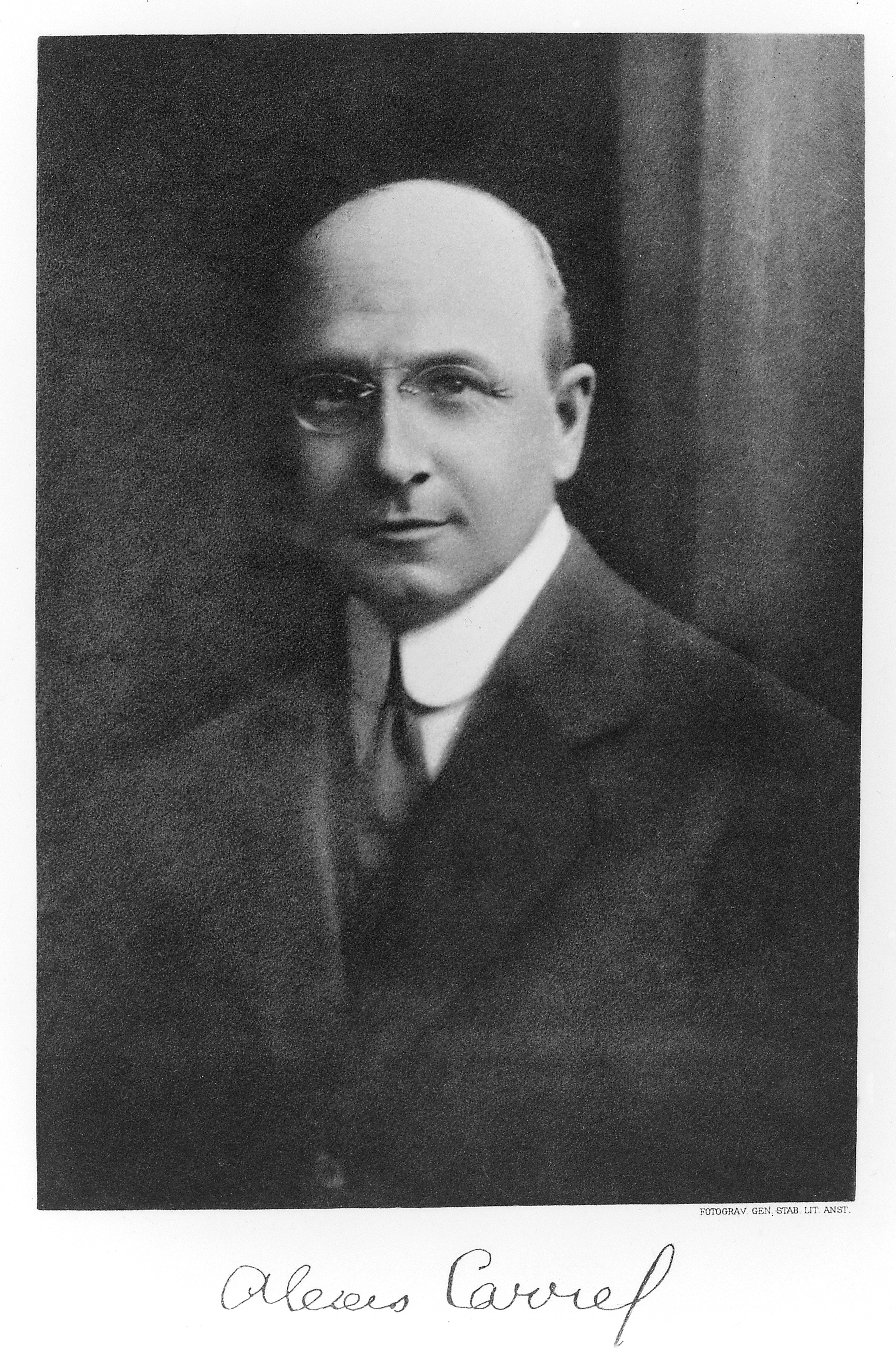 Portait of Alexis Carrel. Wellcome Images Keywords: Nobel Prize